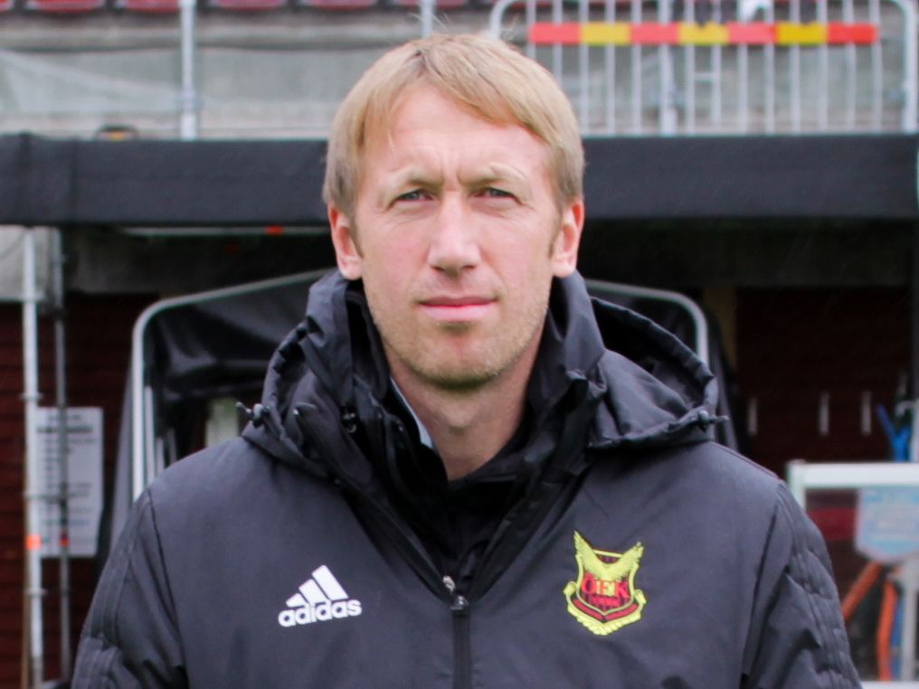 Graham Potter at Östersunds FKs stadium Jämtkraft Arena (Cropped version).